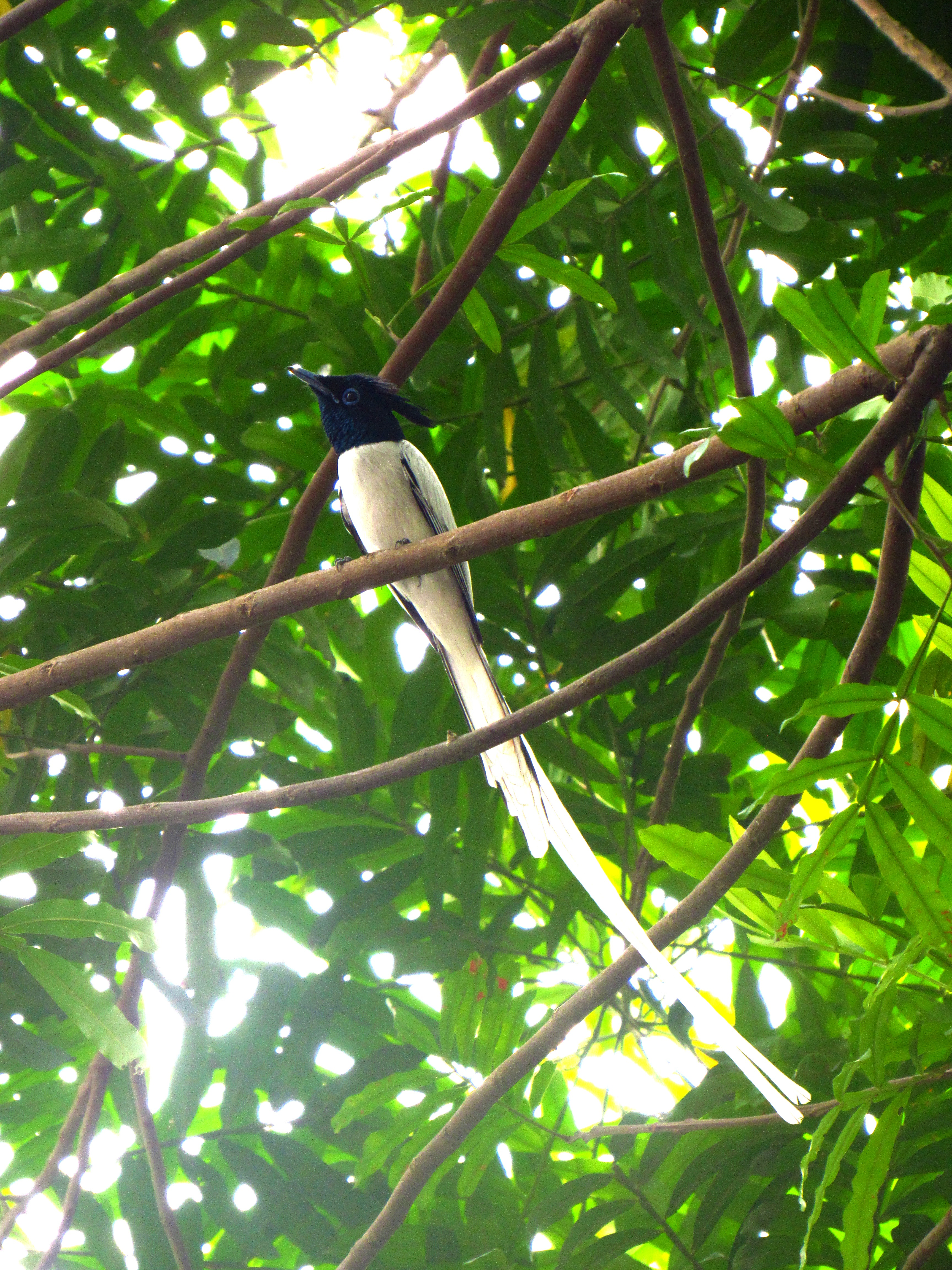 A male Indian paradise flycatcher (Terpsiphone paradisi) with white plumage, in Pannipitiya, Sri Lanka.